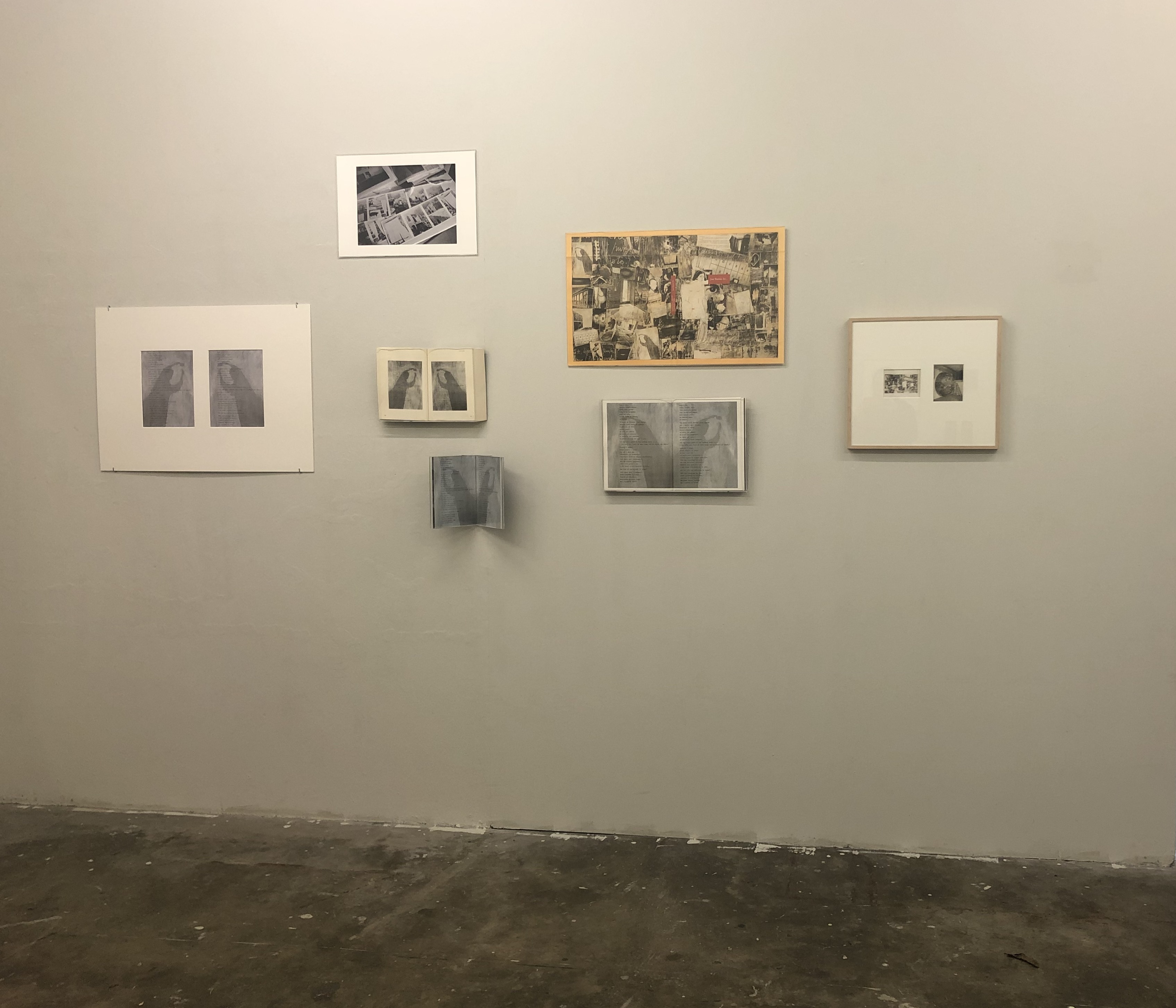 View of José Barrias exhibition curated by Paula Parente Pinto at Centro para os Assuntos da Arte e Arquitectura, Guimarães, December 2019.